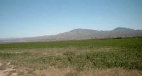 San Pedro River near Benson, Arizona